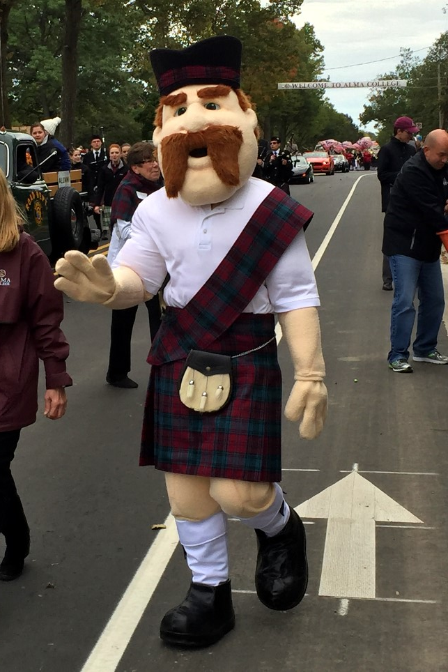 Scotty, the mascot of Alma College (Alma, Michigan).